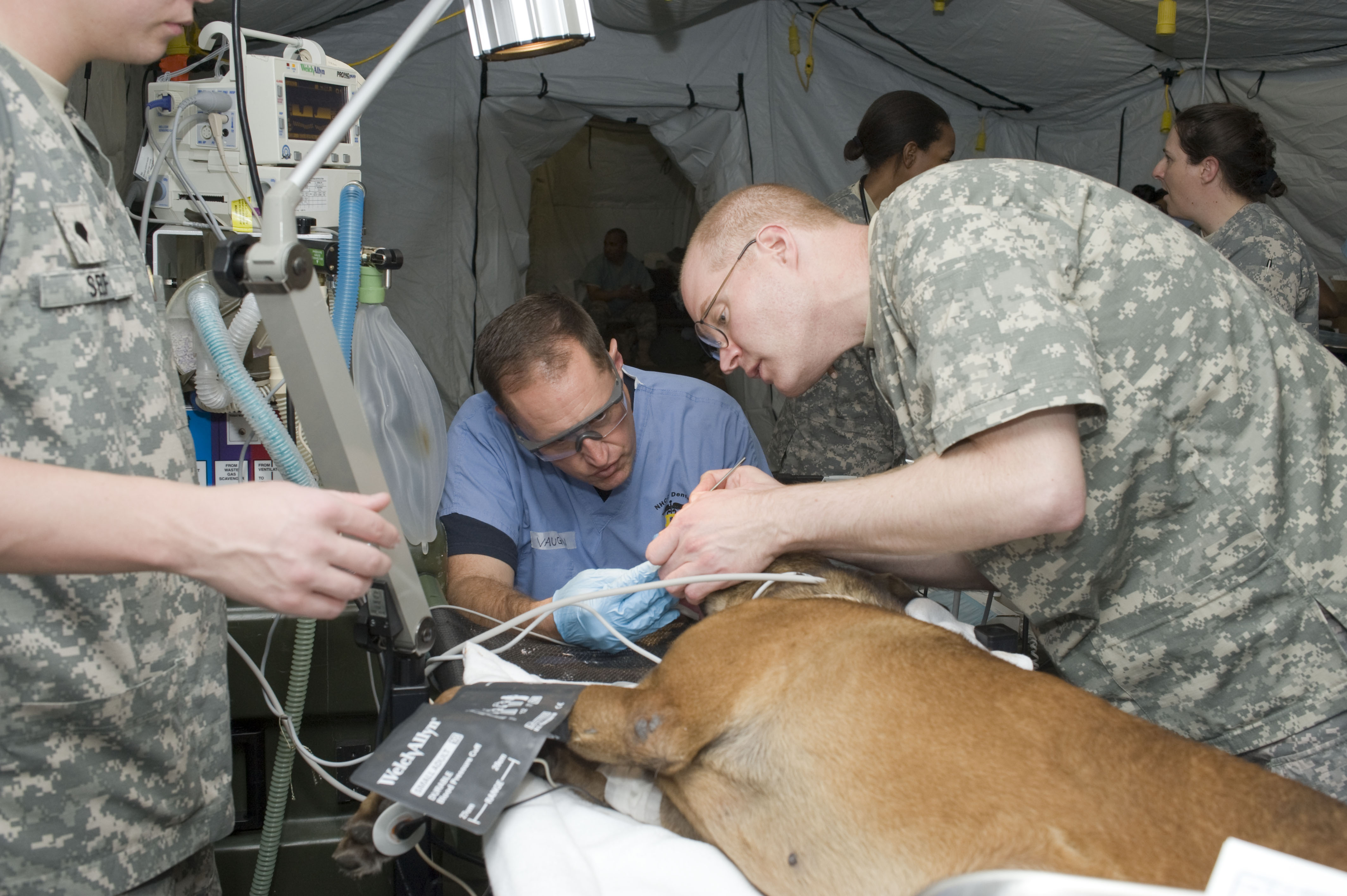 CORPUS CHRISTI, Texas (Feb. 22, 2011) Dental officers Cmdr. Darryl Vaughn, center, assigned to Naval Health Clinic Corpus Christi, and Maj. Robert Selders, right, assigned to the 502nd Dental Company at Fort Hood, Texas, prepare a sedated U.S. Customs and Border Protection working dog for a root canal. Spc. Destry Self, left, an Army veterinary technician is assisting during the procedure. Army and Navy medical professionals performed examinations and surgical procedures on approximately 68 military and Department of Homeland Security working dogs during a weeklong partnership at Naval Air Station Corpus Christi. (U.S. Navy photo by Bill W. Love/Released)